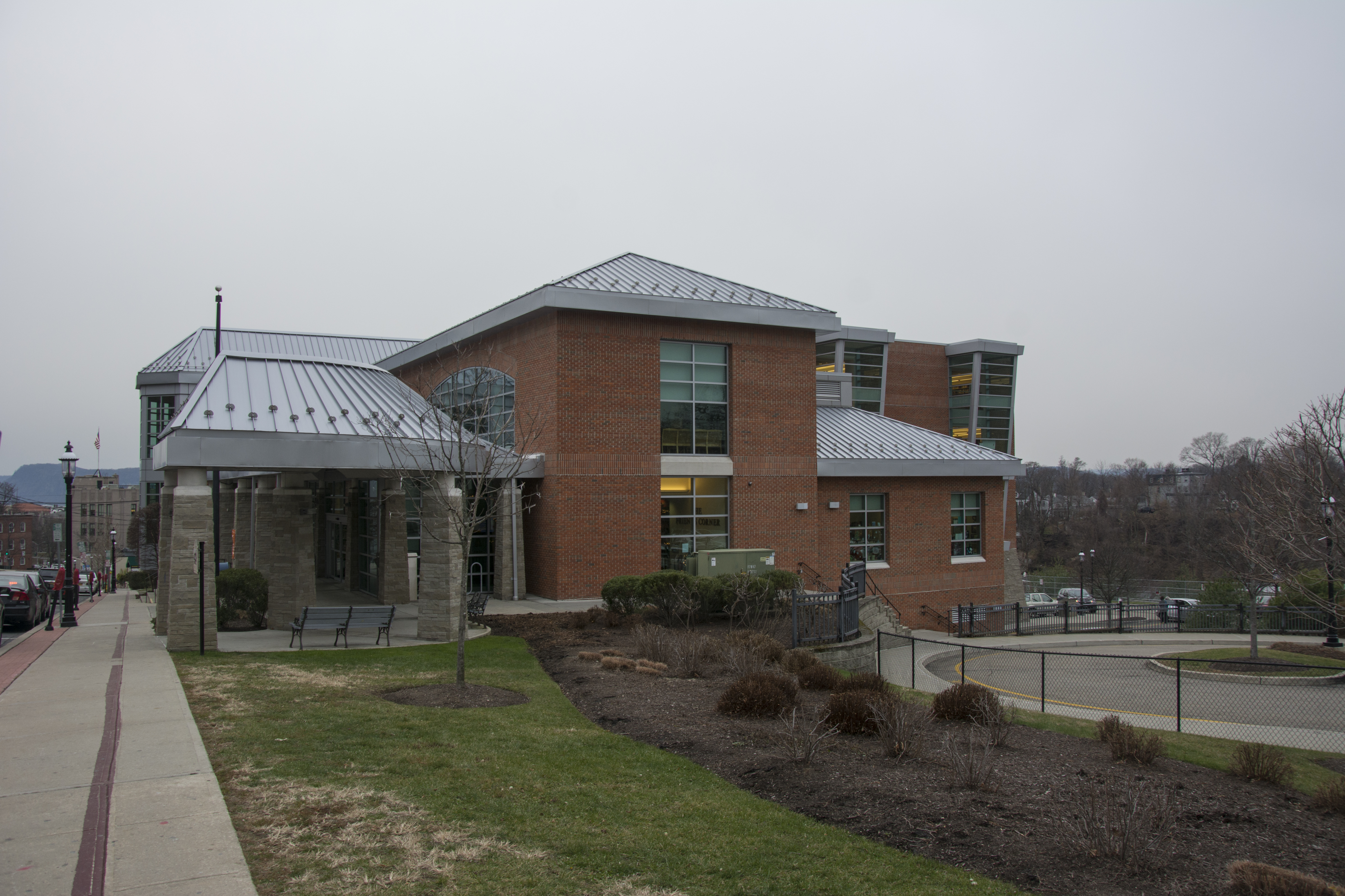 The Ossining Public Library, taken on the below date.